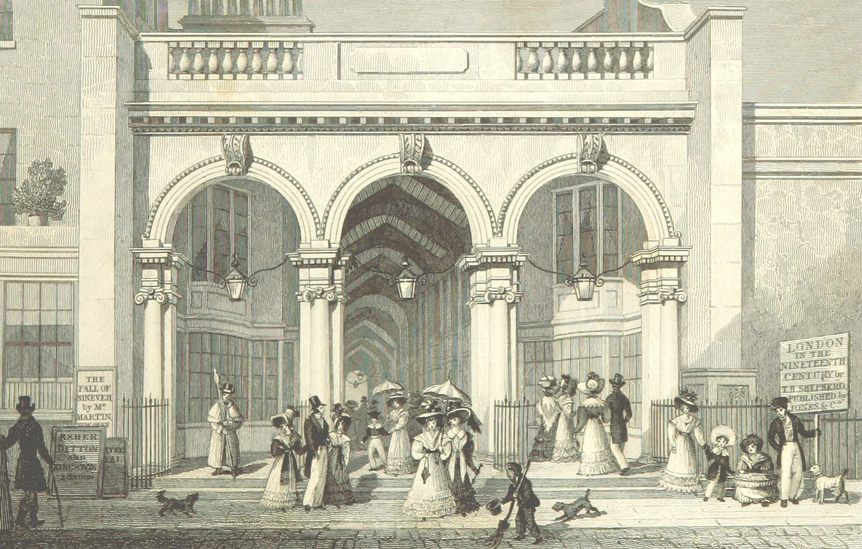 Burlington Arcade, Piccadilly - Shepherd, Metropolitan Improvements (1828)